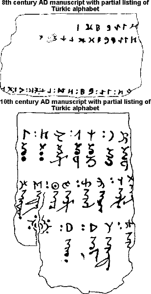 Oldest known Turkic alphabet listings, Rjukoku and Toyok manuscripts. Toyok manuscript transliterates Turkic alphabet into the Uyghur alphabet. From I.L. Kyzlasov, Runic Scripts of the Eurasian Steppes, Moscow, Eastern Literature, 1994, (Кызласов И.Л. Рунические письменности евразийских степей, М, Восточная литература, 1994, 327 с, In Russian) by permission of the author. Personal sketch (not tracing) with copies of author's illustrations. Sketch form personal collection, not copyrighted, 2005. Released under GDFL